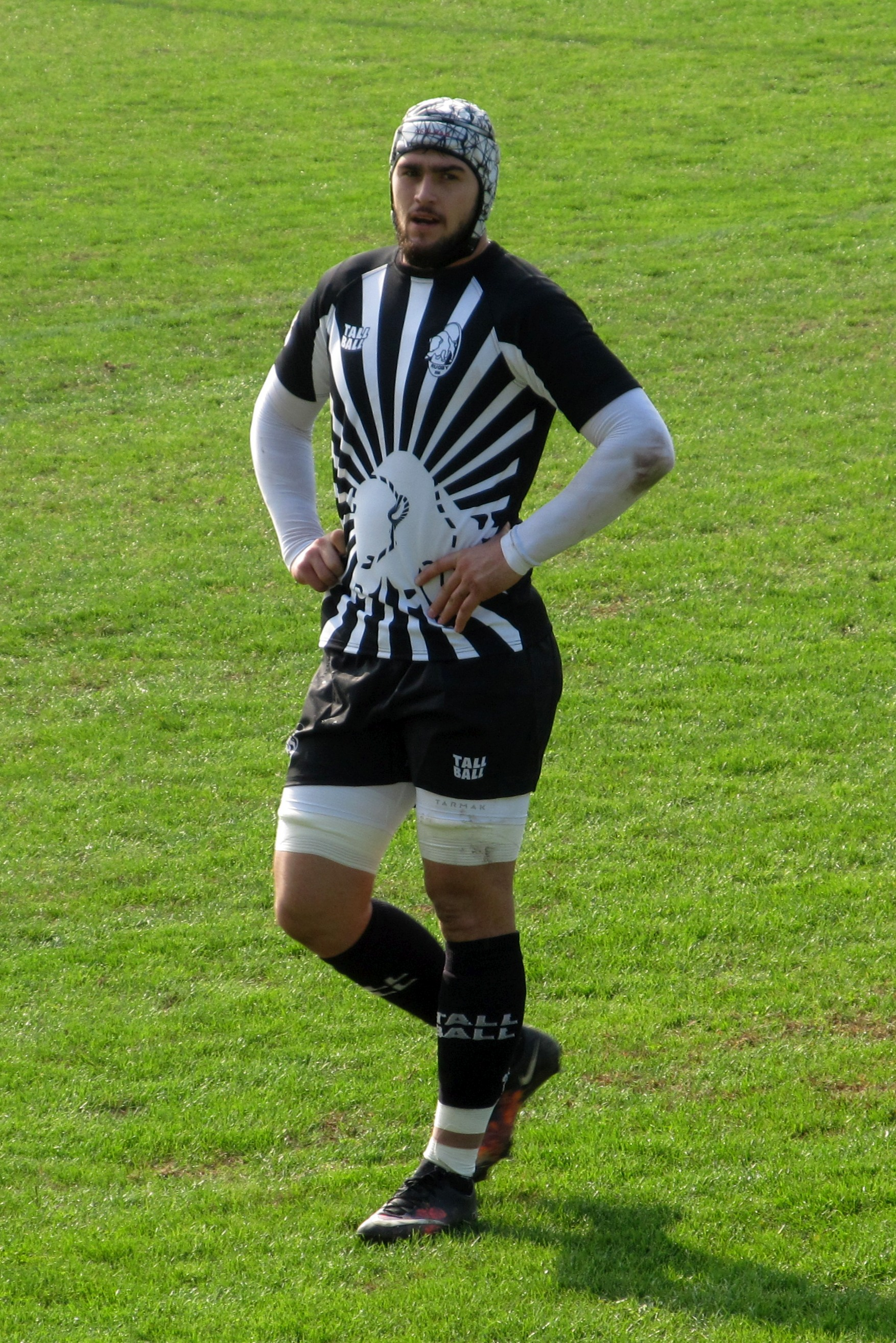 Romanian rugby union international Cristi Chirică, player of CSM Baia Mare rugby club seen in a match against CSA Steaua București during Round 9 of Romanian Rugby SuperLiga in October 2019